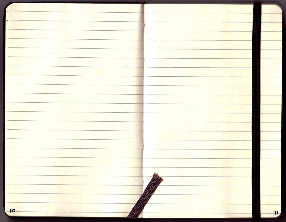 Picture of the inside of a Moleskine ruled notebook. The elastic strap is visible on the right, and the bookmark at the bottom.Blank Moleskine Pages